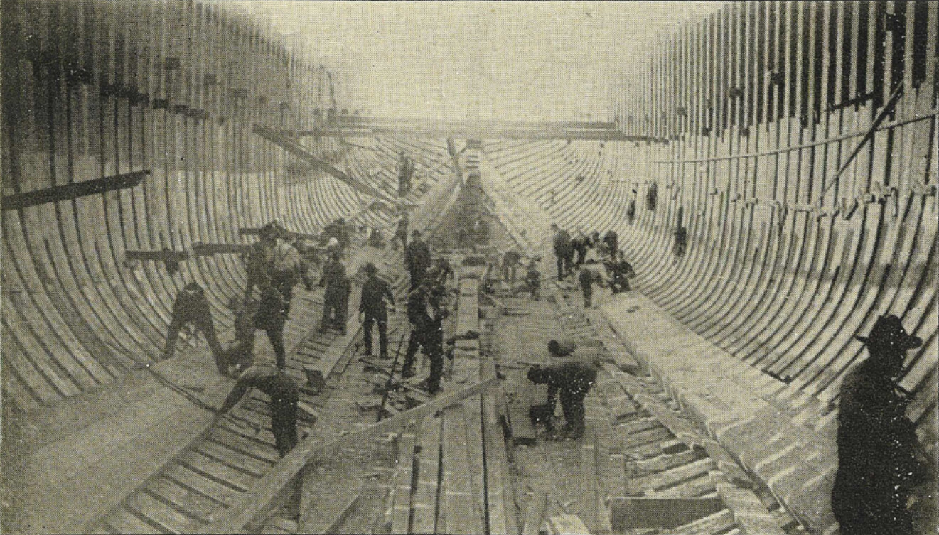 "Moran Bros. Co.—How a ship looks on the inside while in the first stages of construction" from brochure Seattle and the Orient (1900); see Robert Moran (shipbuilder); the shipyard was on the Seattle waterfront.